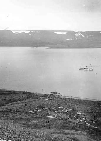 Advent City, Svalbard, Norway. The ship is Kong Harald which operated a summer tourist route from Bergen to Svalbard.